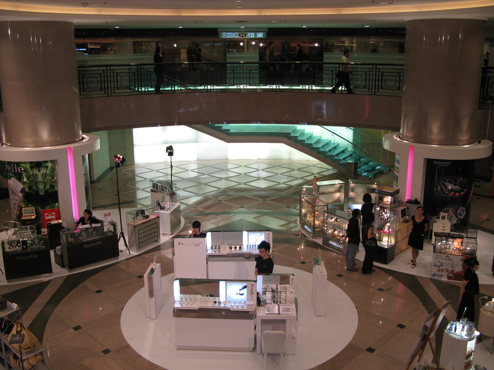 The Gateway Phase 1 The Atrium